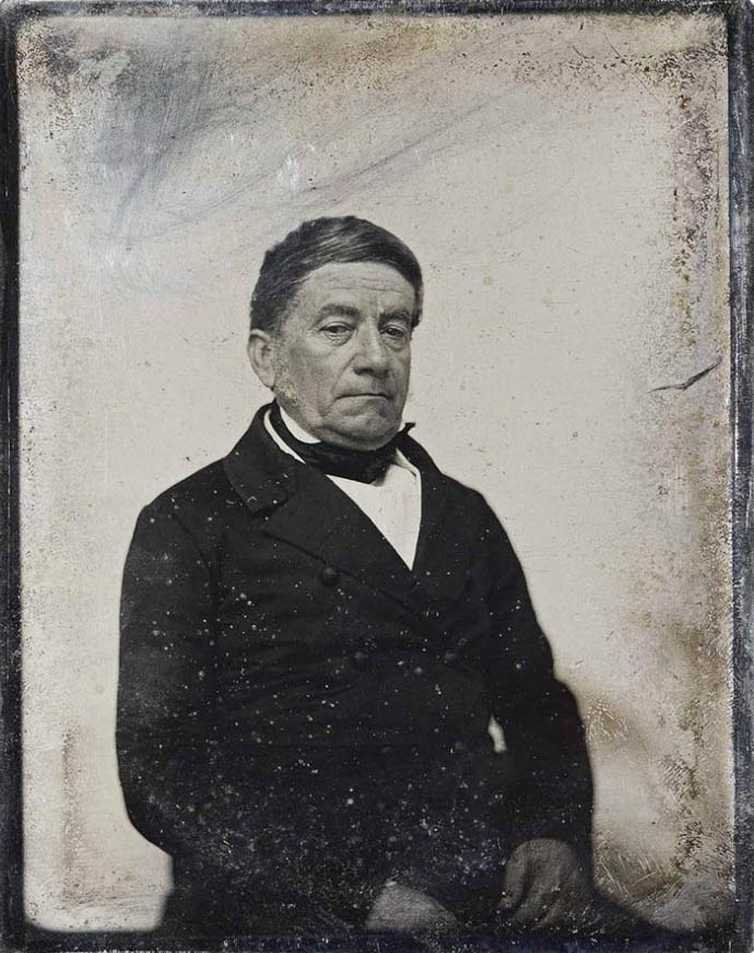 Jose Maria Paz, Argentine military officer.